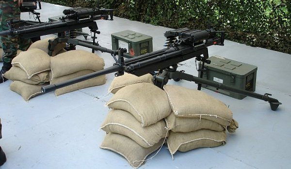 The CIS 50MG heavy machine gun manufactured by the Chartered Industries of Singapore (now ST Kinetics).